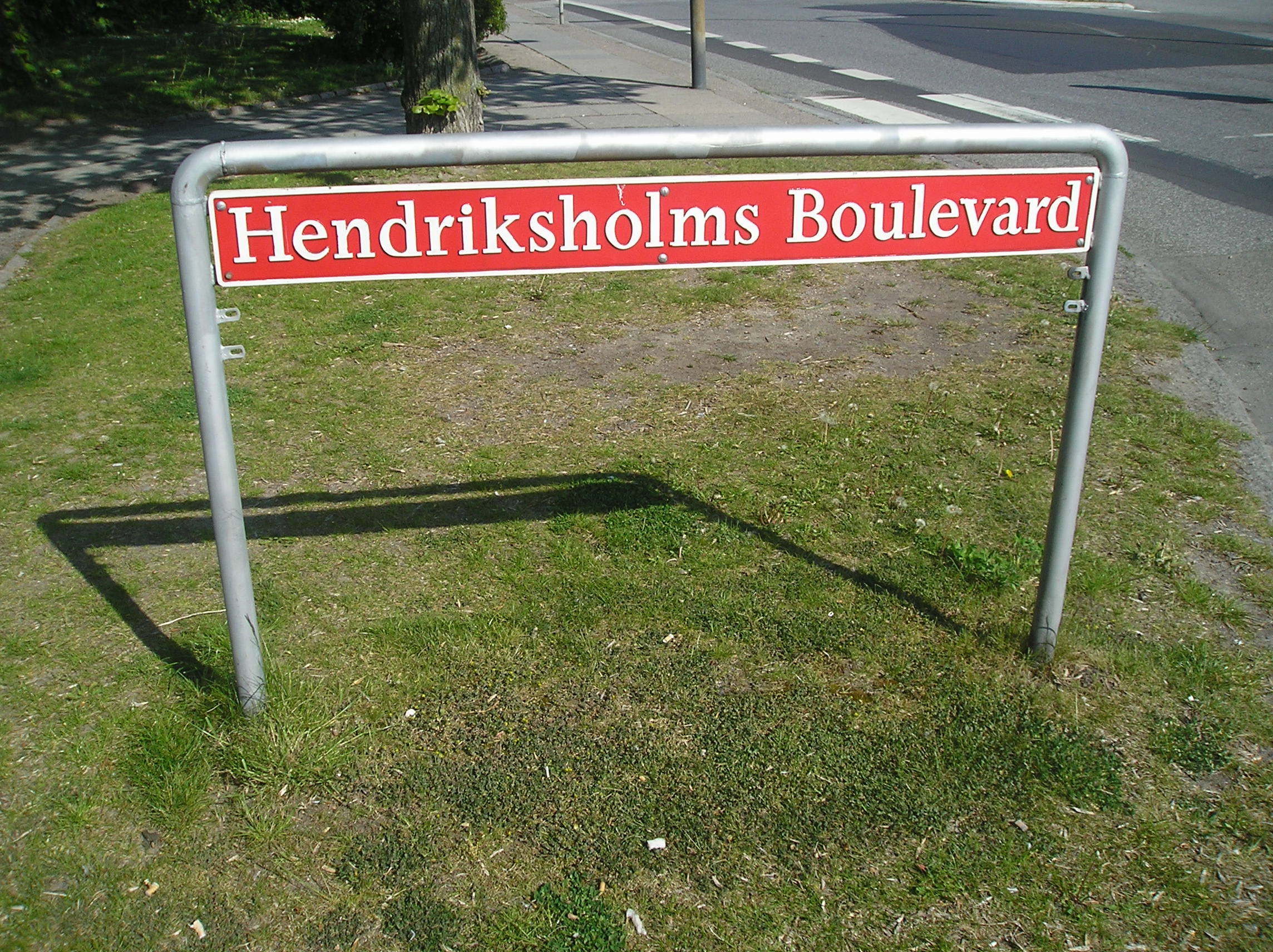 Street sign from the danish municipality Rødovre for the street Hendriksholms Boulevard.